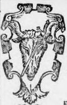 Pomian coat of arms by Jan Aleksander Gorczyn, 1630